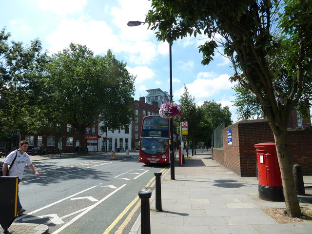 Tottenham bound bus in Baylis Road, Data from Geograph: Description: TQ3179 :: Tottenham bound bus in Baylis Road, near to City of London, Great Britain ICBM: 51.501462524891, -0.11087937603573 Location: (about 1 km from) near to City of London, Great Britain.